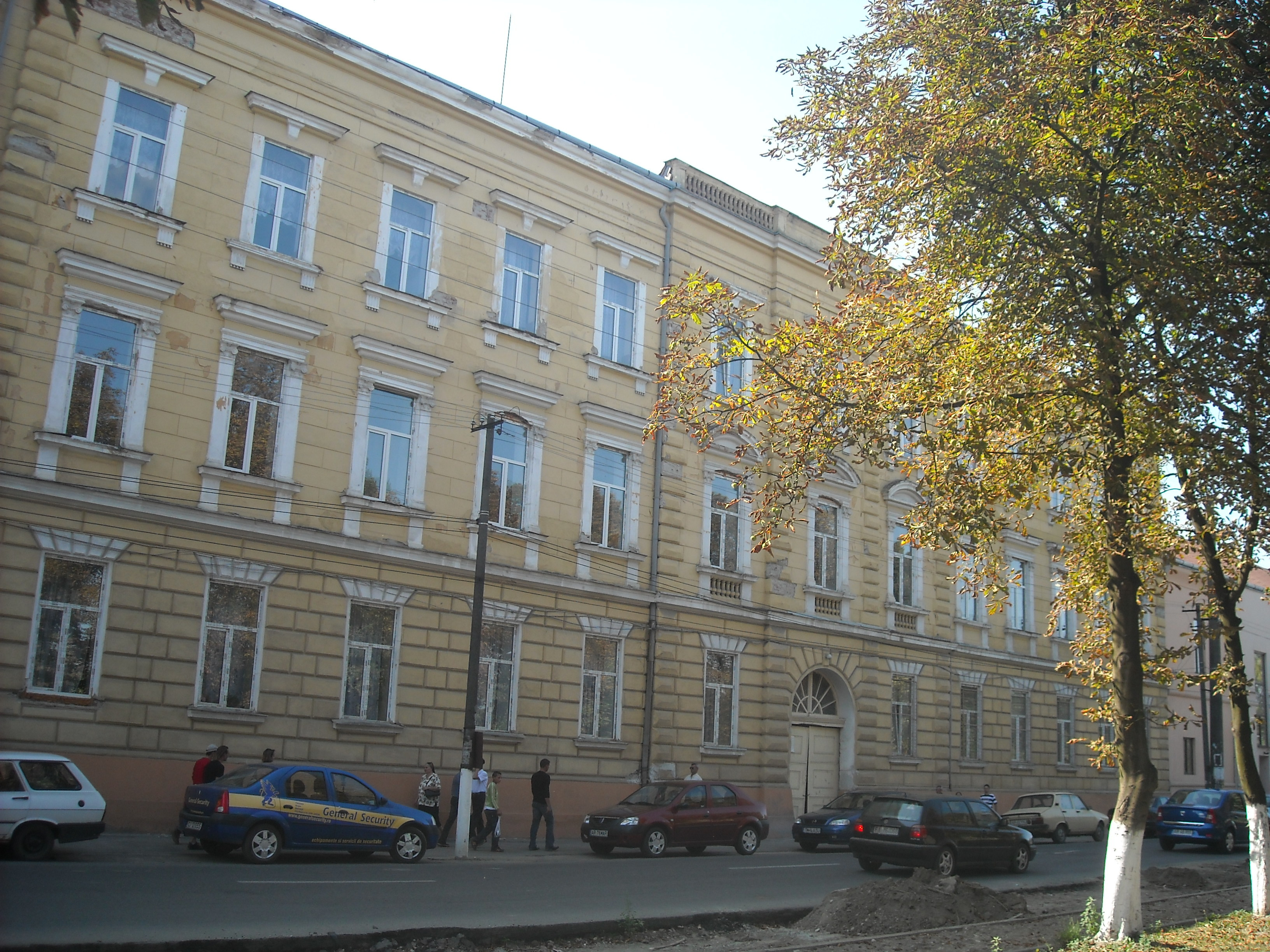 the building of the Atanasie Marienescu Theoretical High School in Lipova (Lippa), Arad county, Romania (formerly convent of the Sisters of Notre Dame)